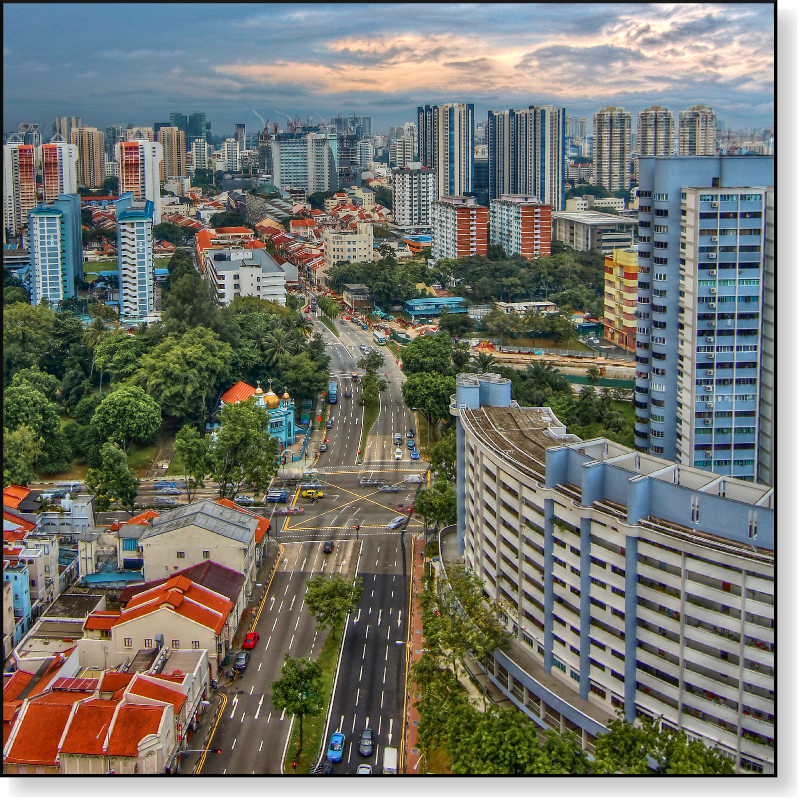 HDR 3 exposure bracket